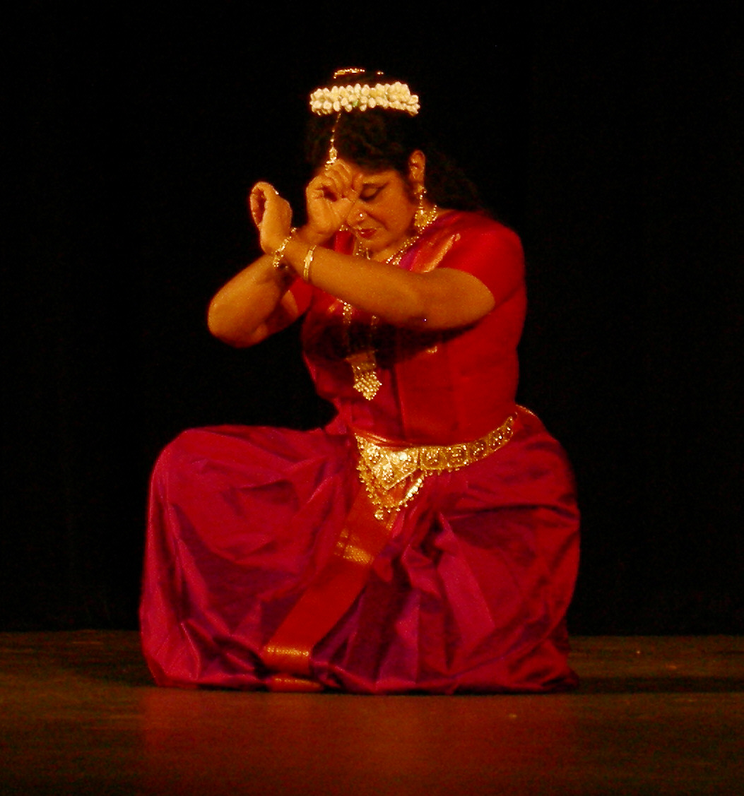 Bharata natyam dancer Chitra Visweswaran. Photo taken at Interlake High School, Bellevue, Washington, during a performance in the Ragamala series (Greater Seattle).